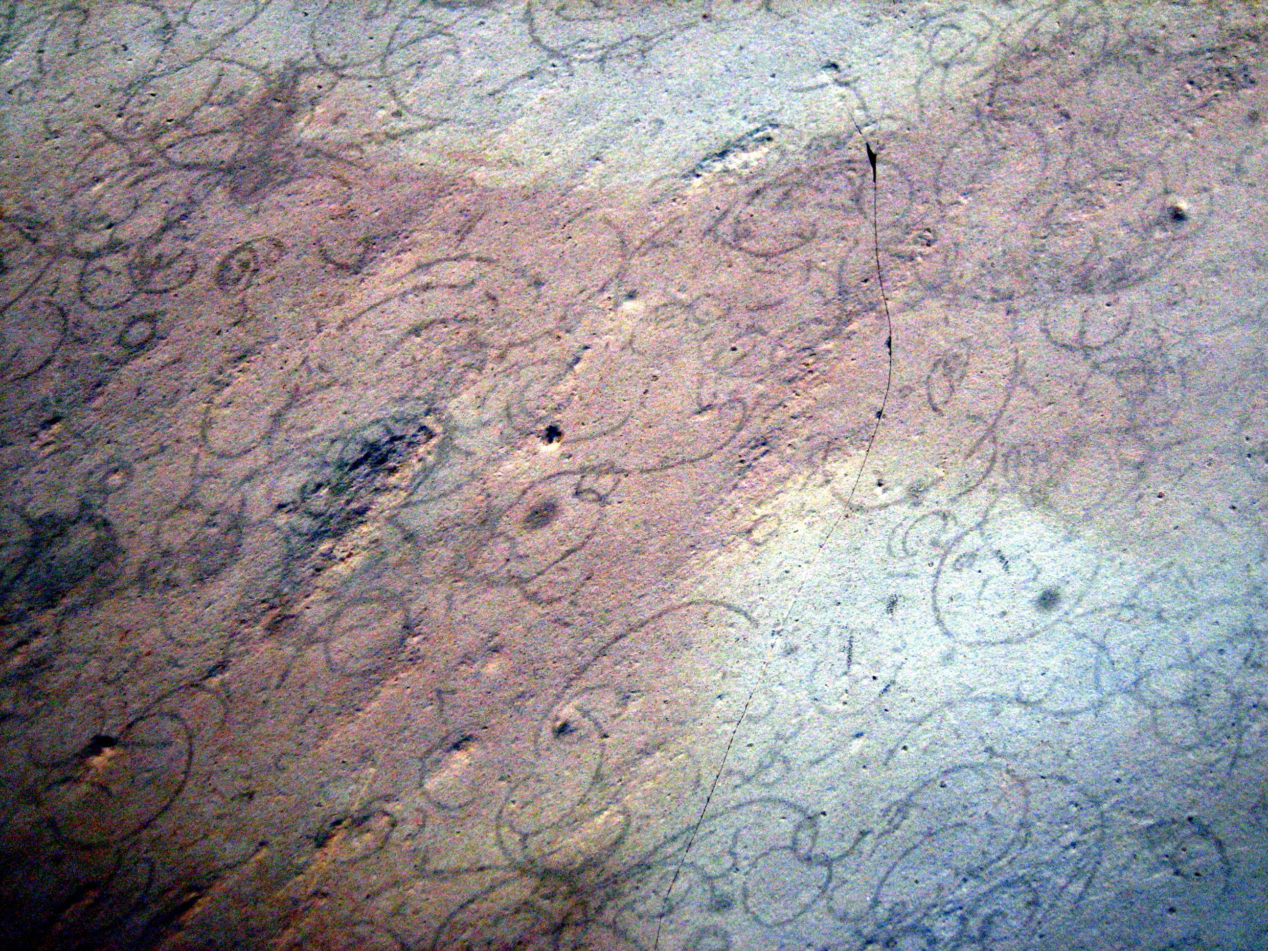 Grypania spiralis, Negaunee Iron, Palmer, Michigan (USA) (-2.200 MA). CosmoCaixa (Barcelona)